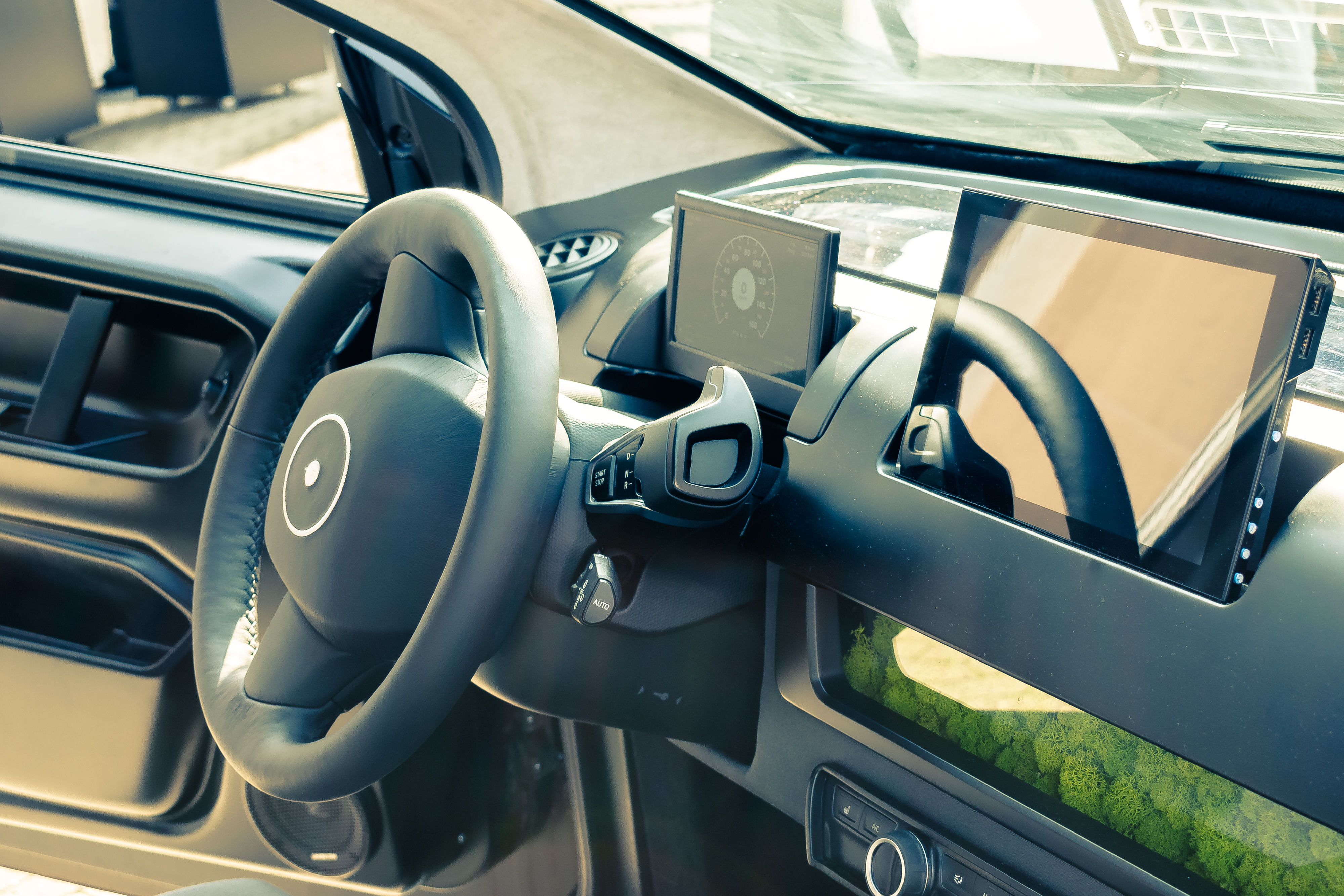 Das Team vom Cleanelectric-Podcast fährt das Solarauto "Sion" von Sono Motors in Nürnberg Probe.